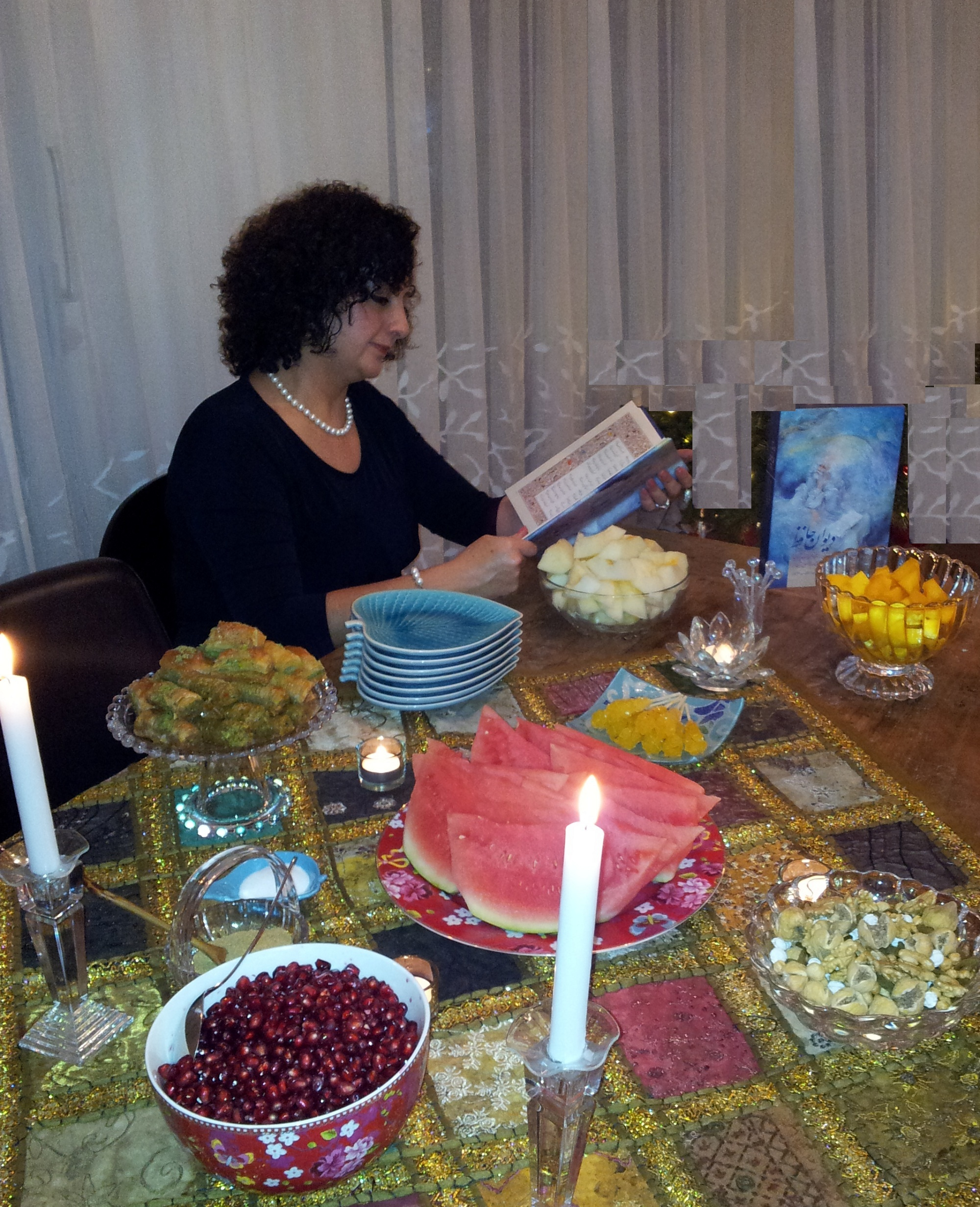 Persian woman recites Hafez poems in Yalda Night